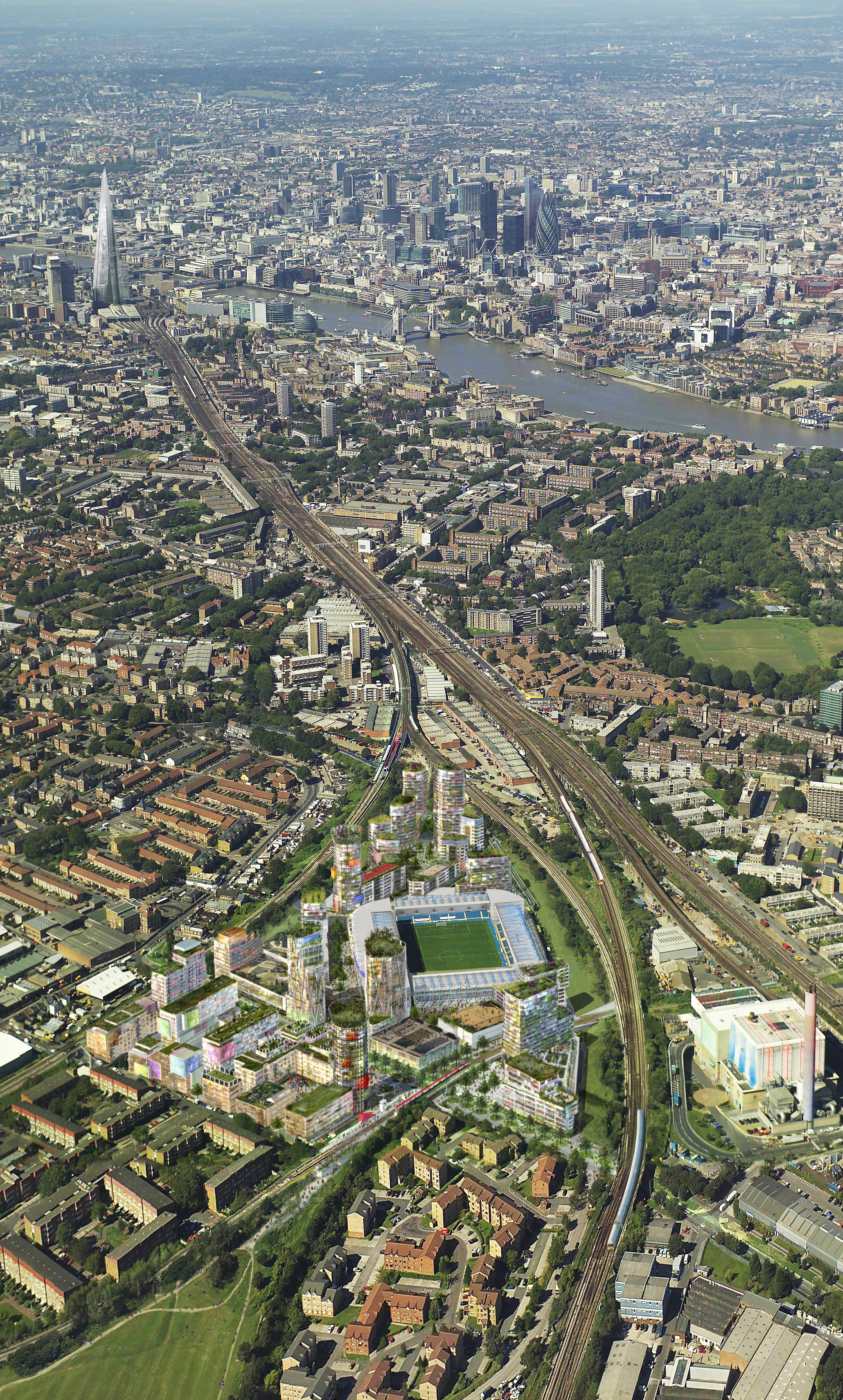 Aerial view of consented development